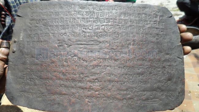 Raikaa Raja Tamrapatra